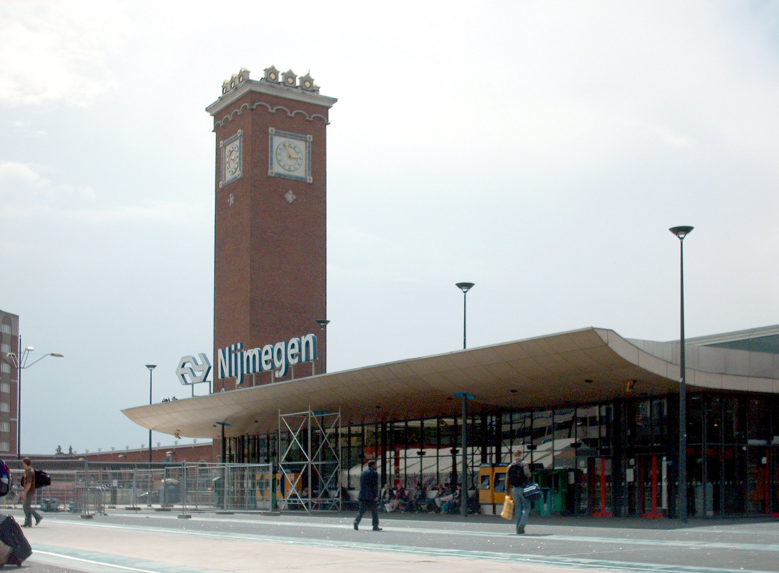 Nijmegen Centraal Station, Nijmegen, Netherlands check usage